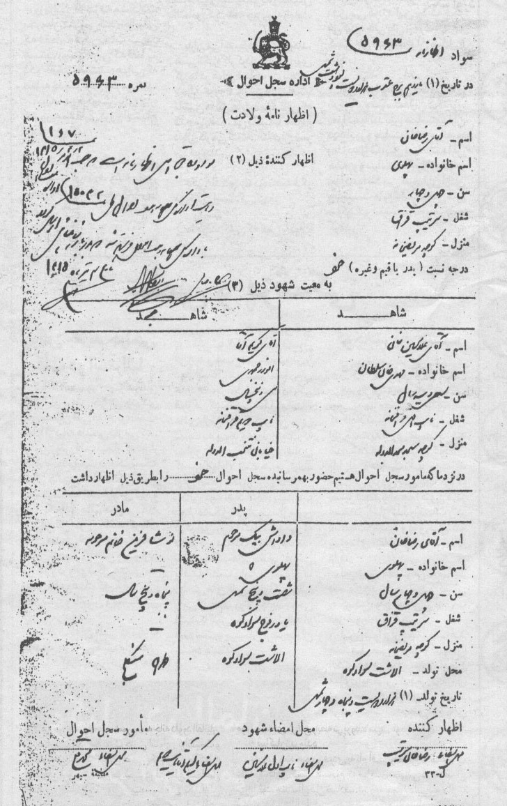 Reza Shah (March 16, 1878 – July 26, 1944). this document issued at 1920 (age 42) for him.